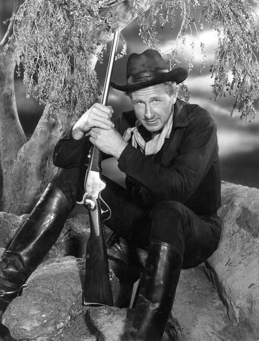 Photo of Lloyd Bridges from the television program The Loner. Bridges played William Colton.